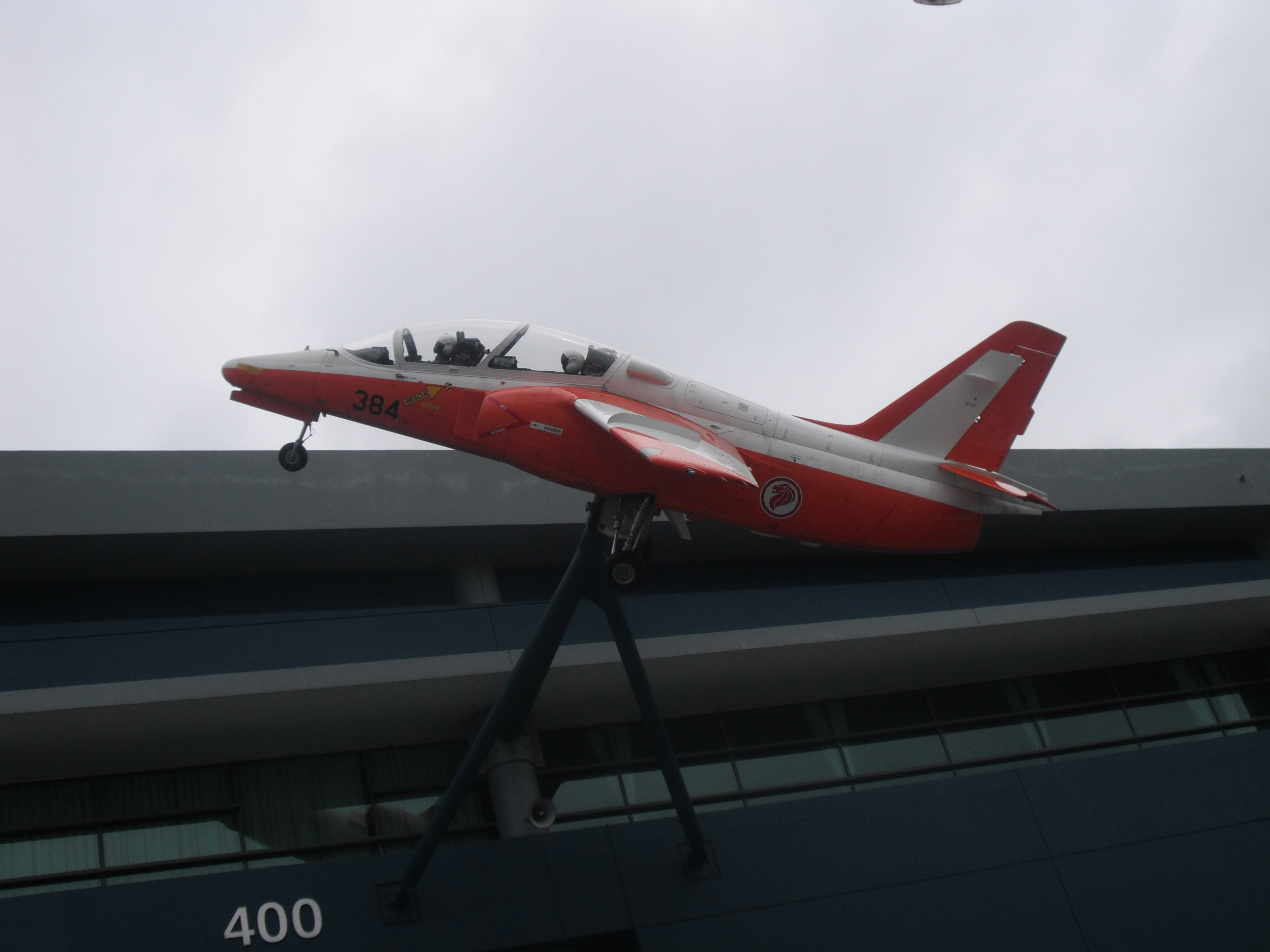 Retired RSAF S.211 (9V-384) preserved at RSAFM.